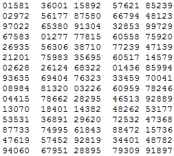 Sample of random digits